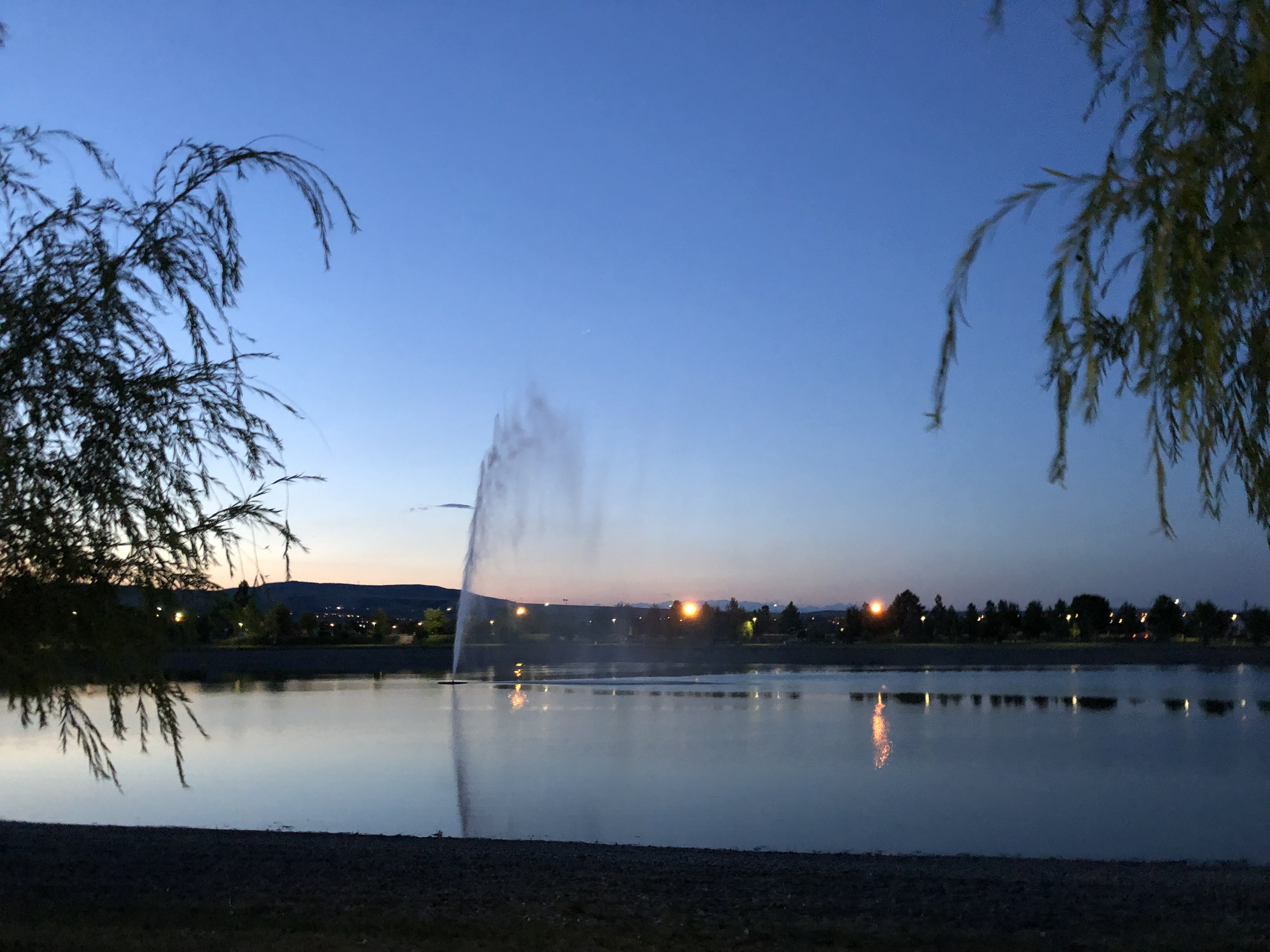 Kladovo lake is an artificial lake in manicipulity of Kladovo. It is one of the smallest lakes in Serbia